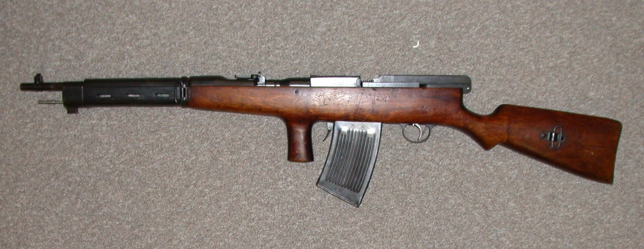 Fedorov Model 1916 Automatic Rifle